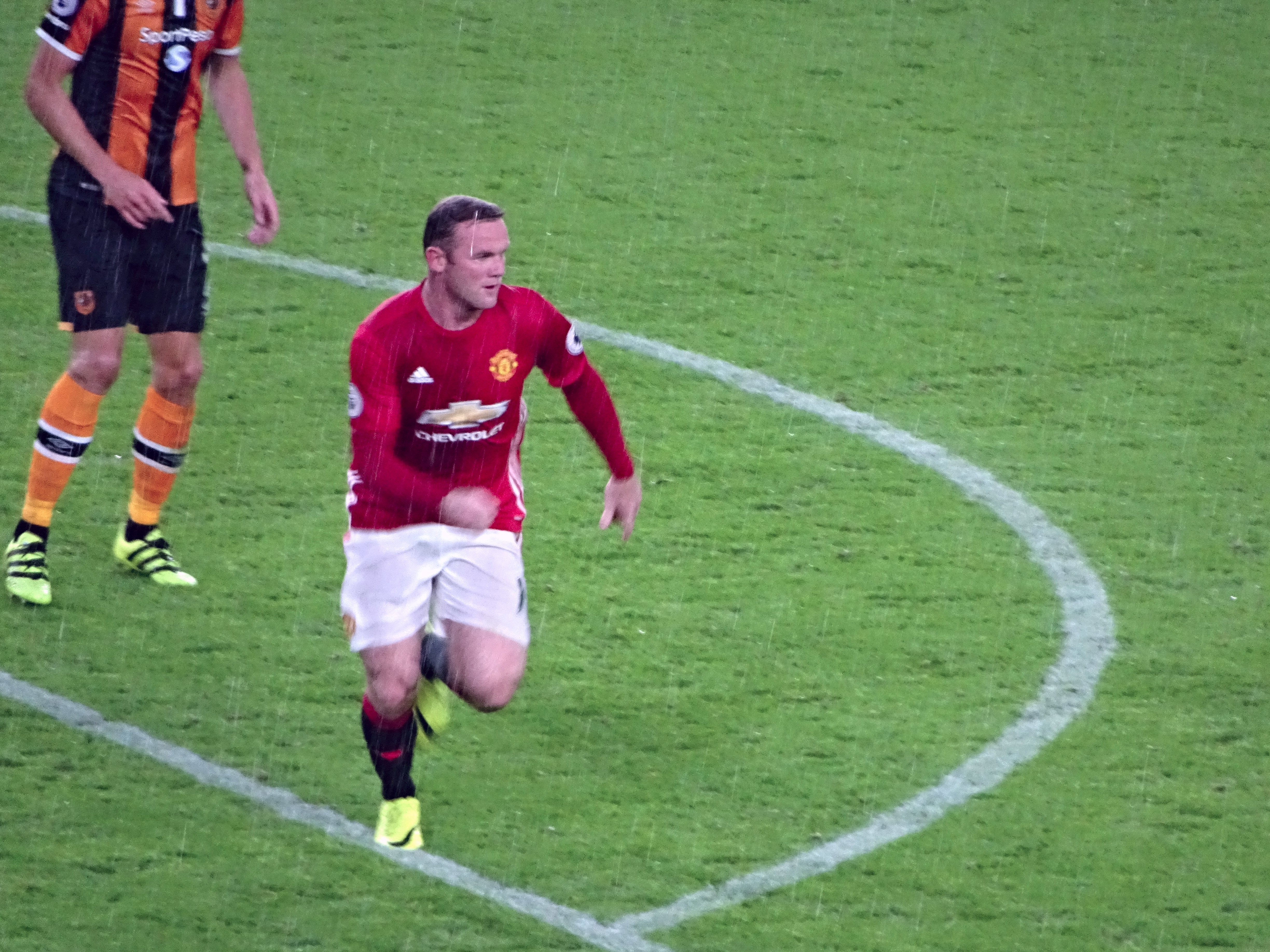 Rooney